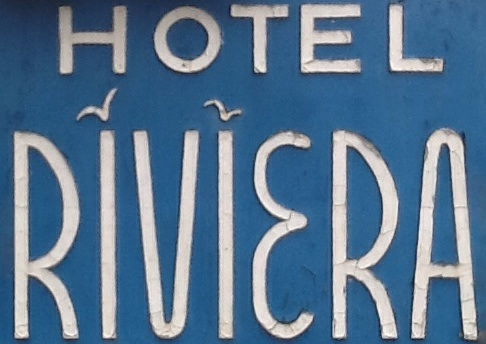 Logotype Hotel Riviera